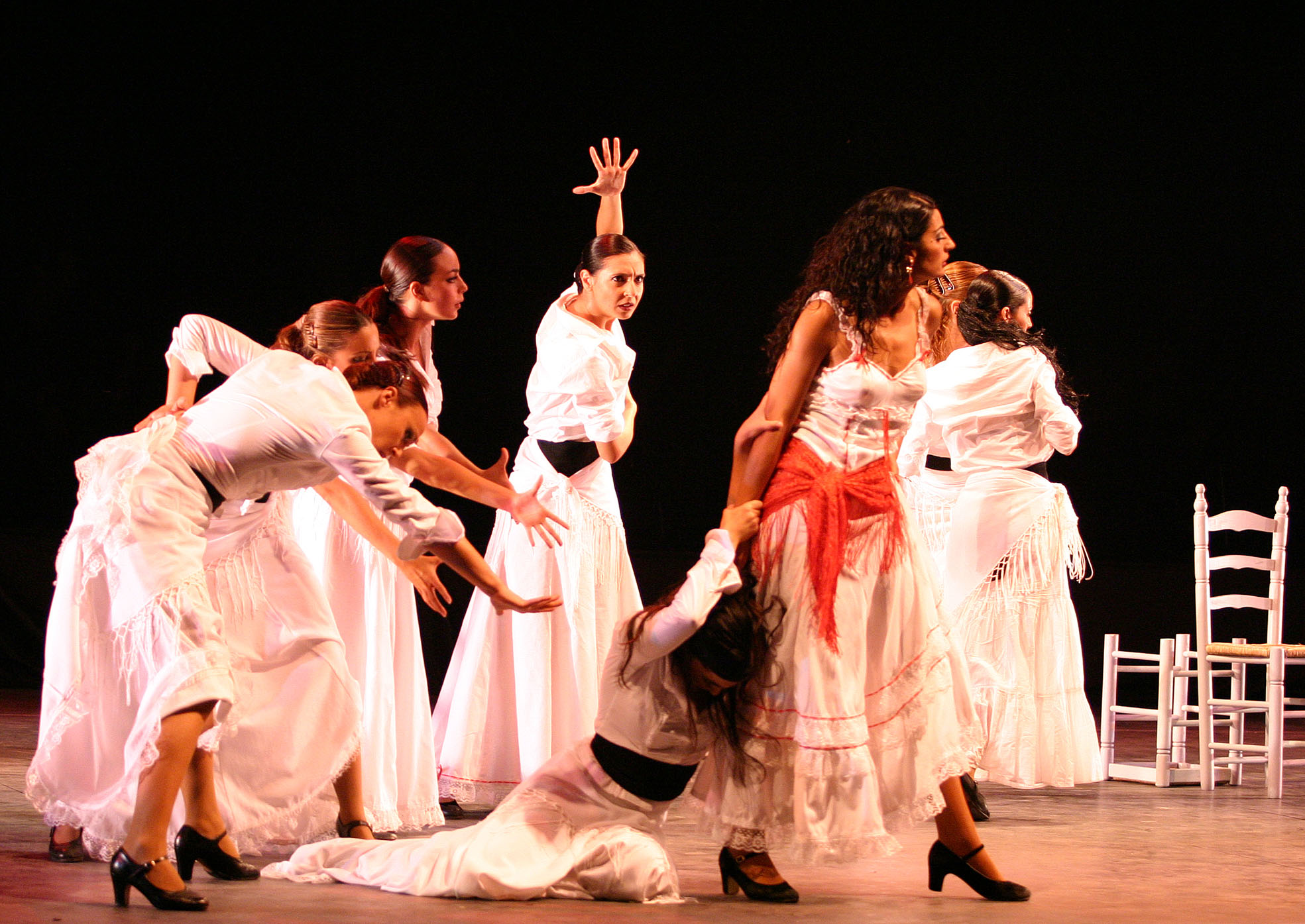 Georges Bizet's Carmen in Madrid. Reina Victoria Theater. Summer 2007